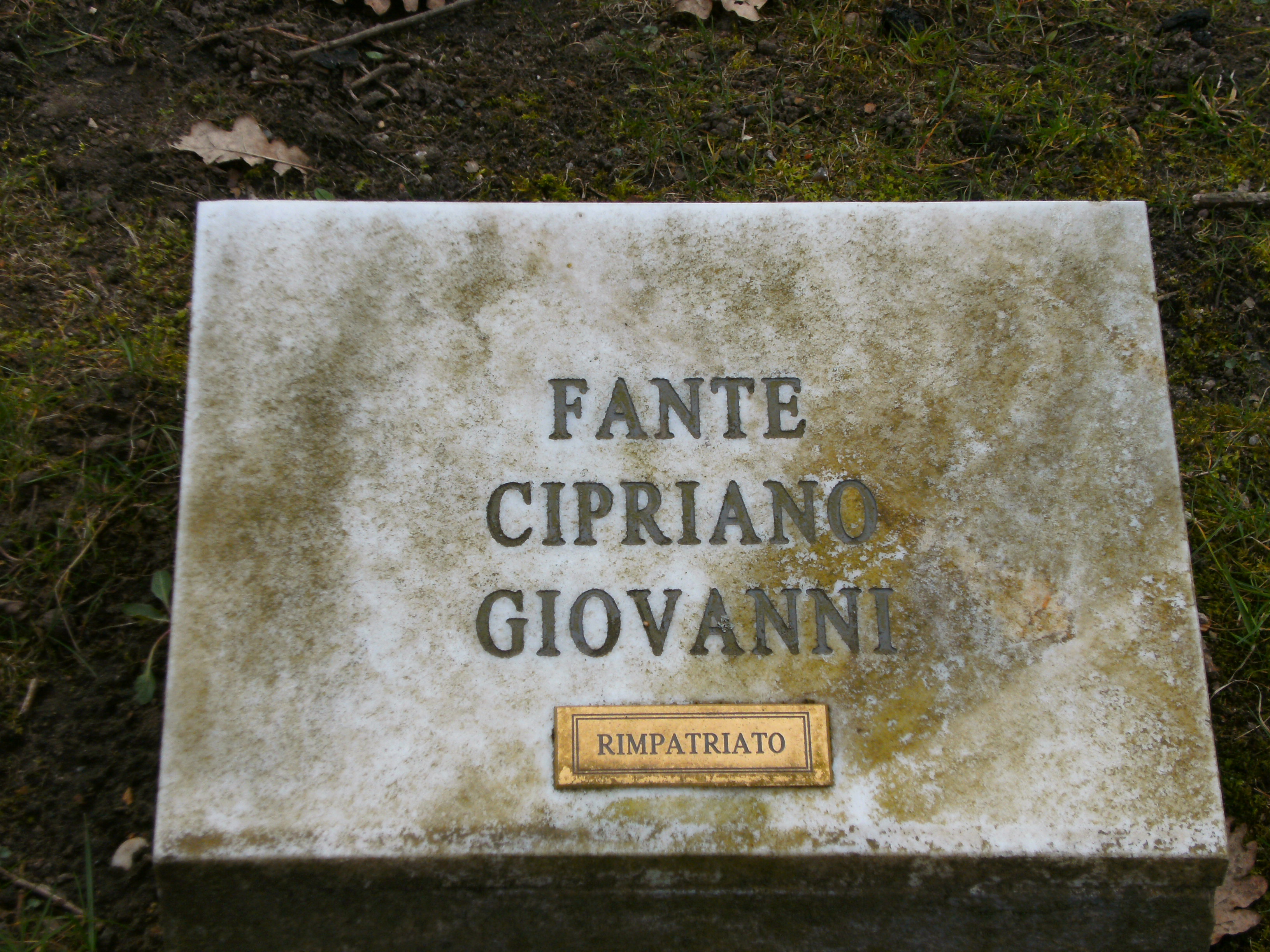 Gravestone infantryman at the Italian war graves cemetery Hamburg-Öjendorf. After some time transfered (rimpatriato) to Italy.